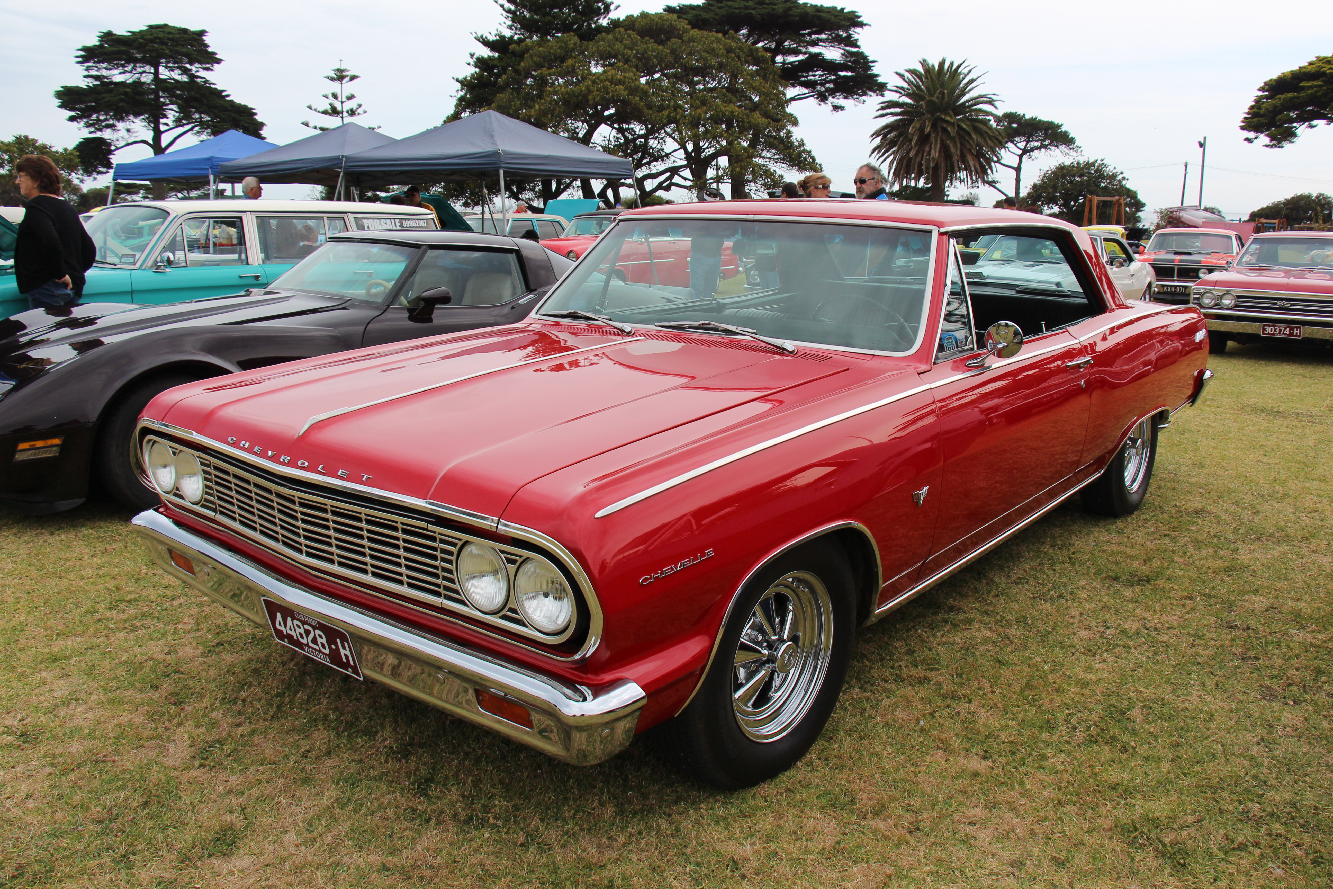 Ember Red. 1964 was the 1st Chevelle; introduced to compete with Ford Fairlane. Available in Hardtop, Convertible, Sedan and Wagon. The 2 door hardtops, like all 2 door Chevys, were known as the Sports Coupe and the 4 door hardtops, the Sports Sedans. The SS performance package (In 1964 and 65 it was called the Malibu SS) was only available in 2 door Hardtop or Convertible, it got disc brakes, bucket seats, console, extra gauges and 283 cu in V8 (327 V8 available in mid 1964).